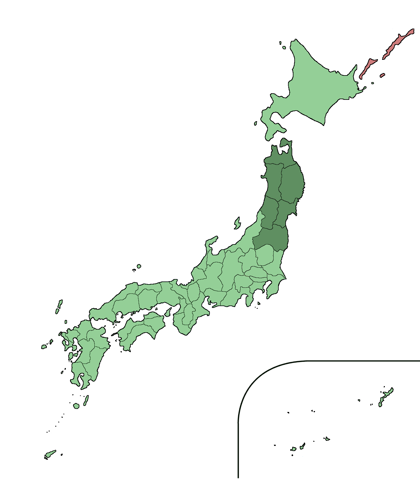 Large size map of Japan with Tohoku region highlighted, self made but originally based on a japanese mapbook.